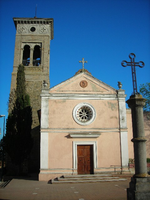 church of St. Ermete, Brufa, Torgiano, Perugia, Umbria, Italy